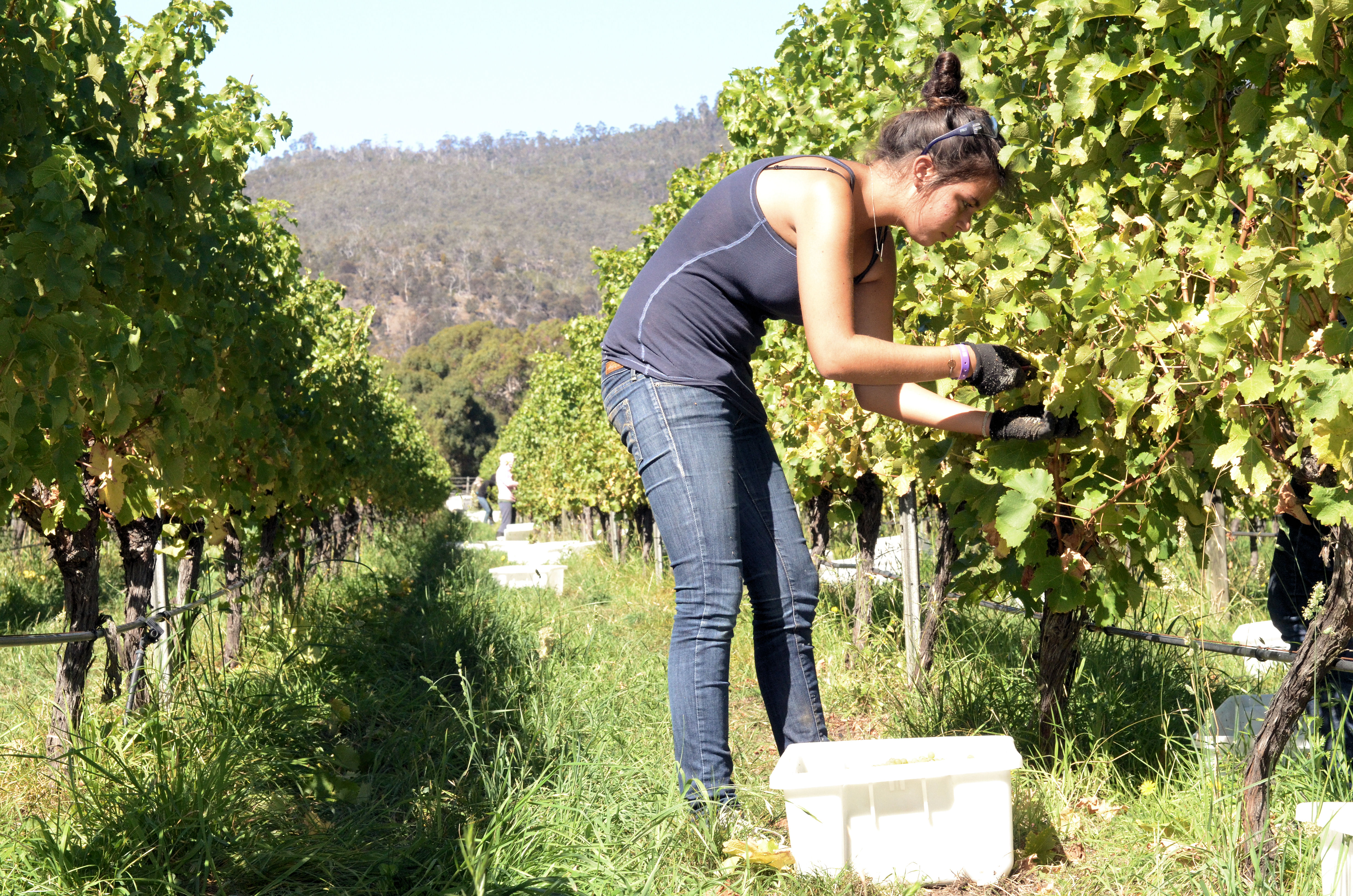 Sauvignon Blanc harvest The image was captured at Granton Vineyard in southern Tasmania. The 25ha site is home to the wines of fifth-generation winemaker Steve Lubiana. The Lubiana family create cool climate, artisan wines from grape to glass in Australia's picturesque Derwent Valley. Sustainable biodynamic vineyard practices and a state of the art on-site winery ensure complex New World wines of excellence and distinction that merit comparison with those of the Old World.